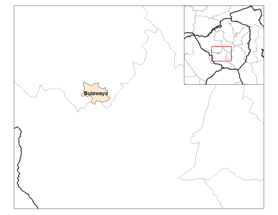 Map of the Bulawayo district of Zimbabwe. Created by Rarelibra 18:27, 28 September 2006 (UTC) for public domain use, using MapInfo Professional v8.5 and various mapping resources.